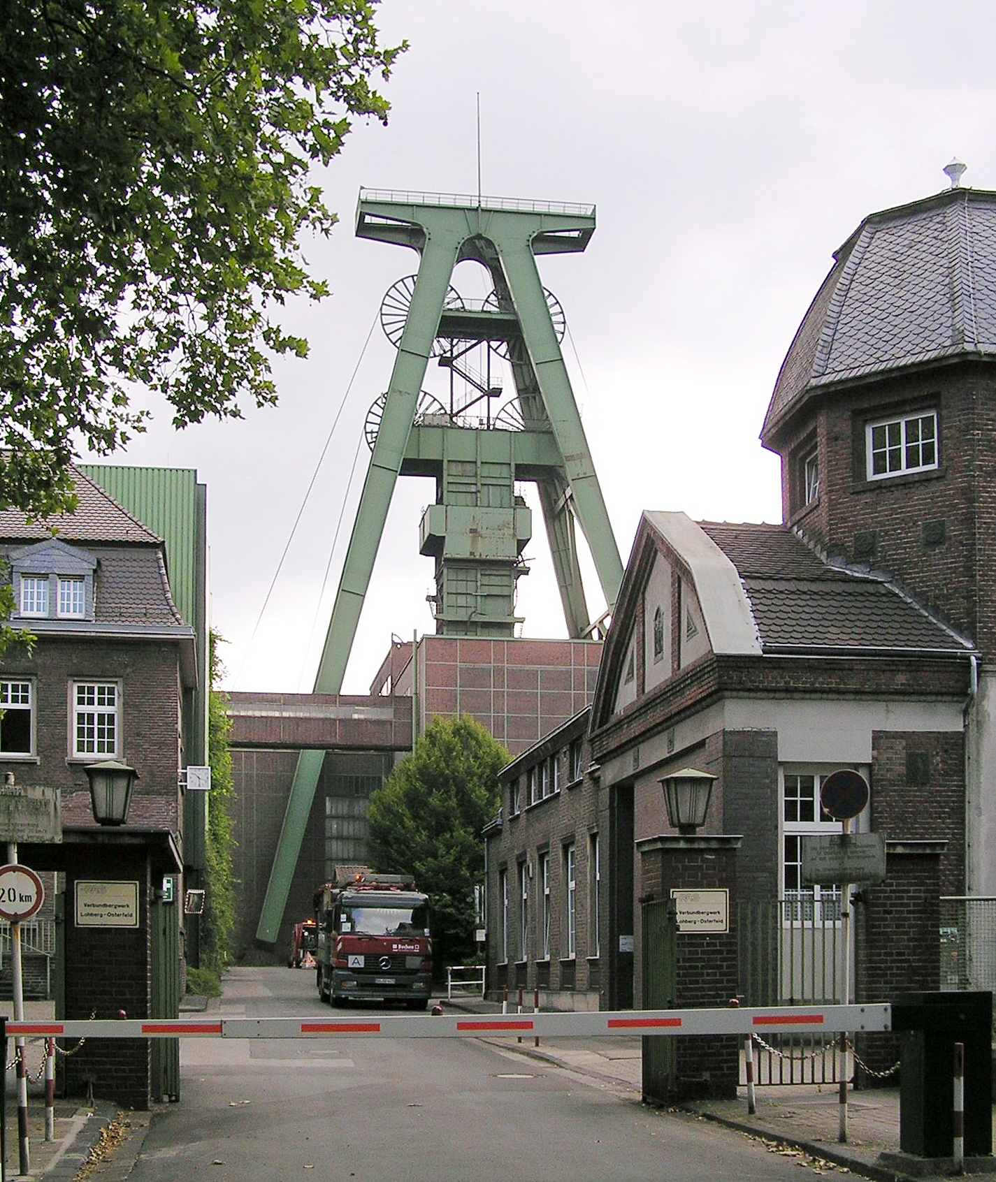 Pit 2 of the coal mine "Lohberg" in the German city Dinslaken in North Rhine-Westphalia